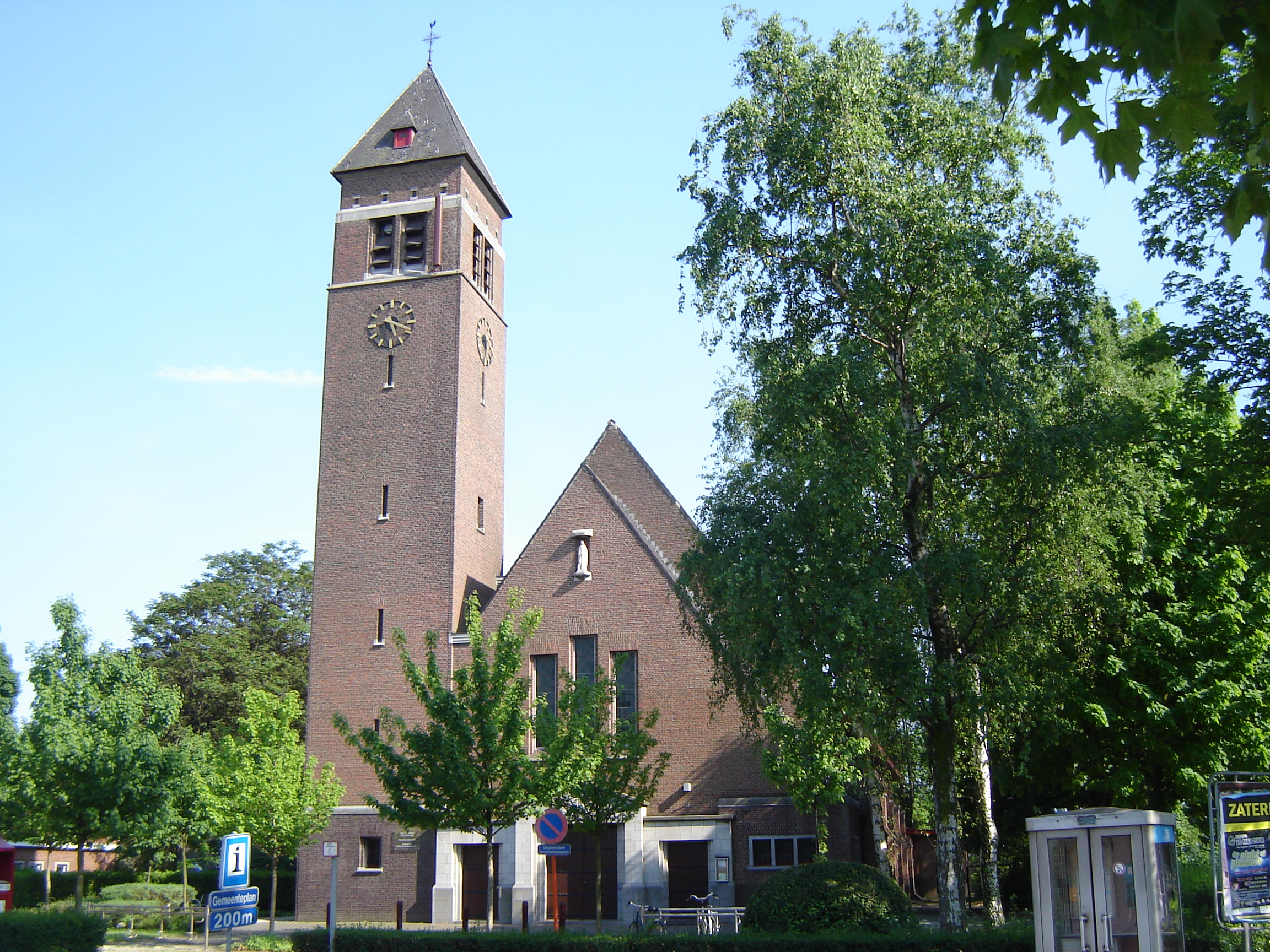 Church of Saint Barbara in Rieme. Rieme, Ertvelde, Evergem, East Flanders, Belgium